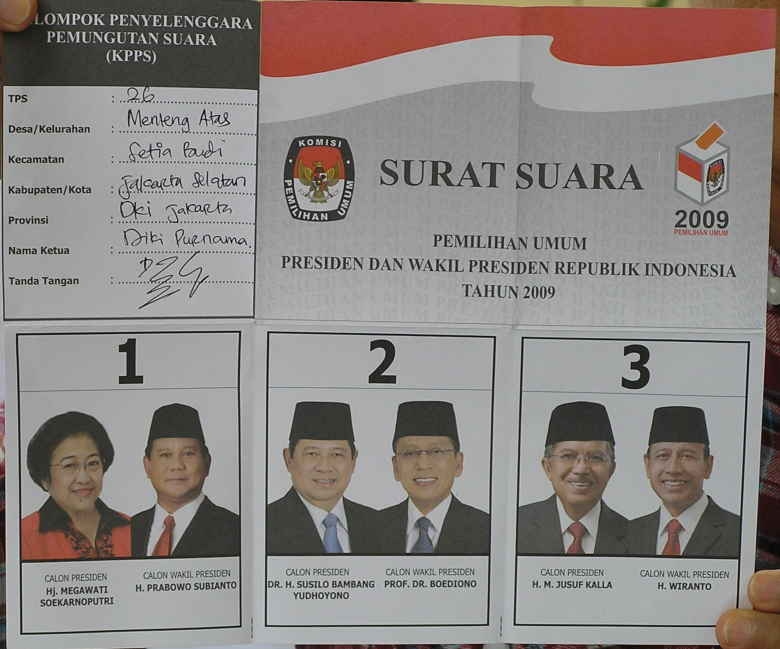 A ballot paper used in the 2009 Indonesian Presidential Election